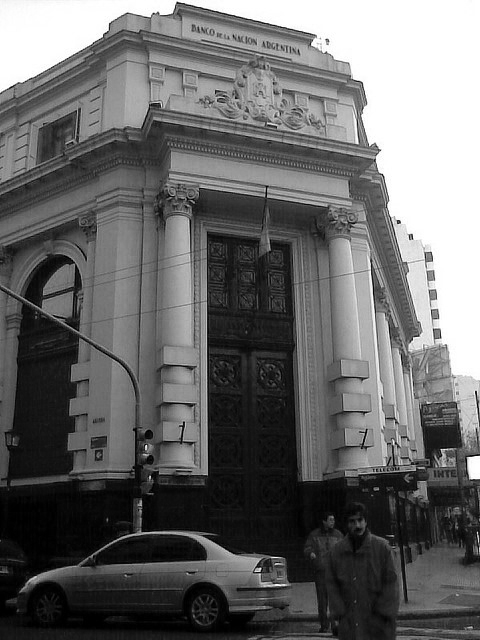 The Abasto neighborhood branch of the National Bank of Argentina, at 3302 Corrientes Avenue. Balvanera ward, Buenos Aires.